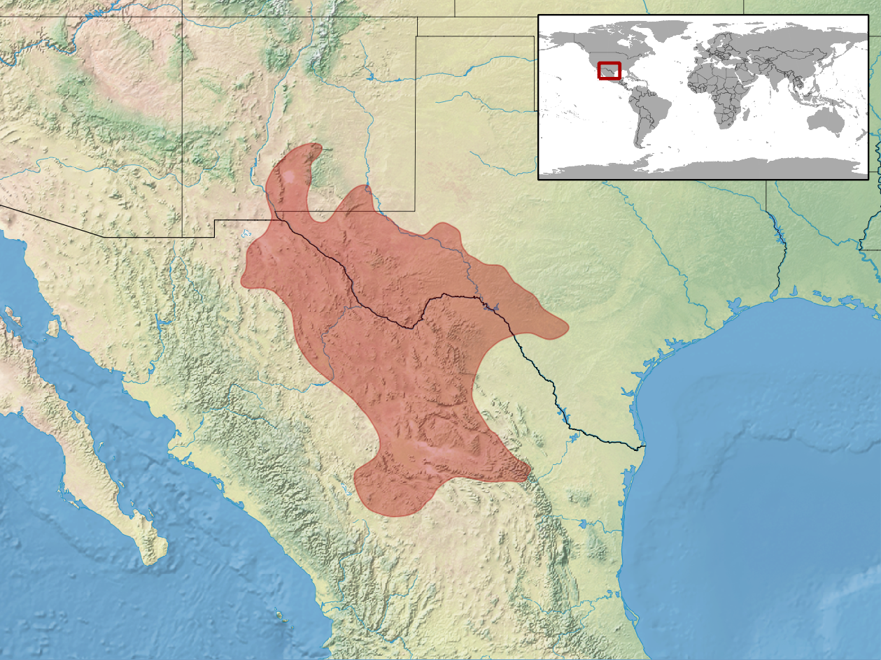 geographic distribution of Bogertophis subocularis (Native: Mexico; United States)